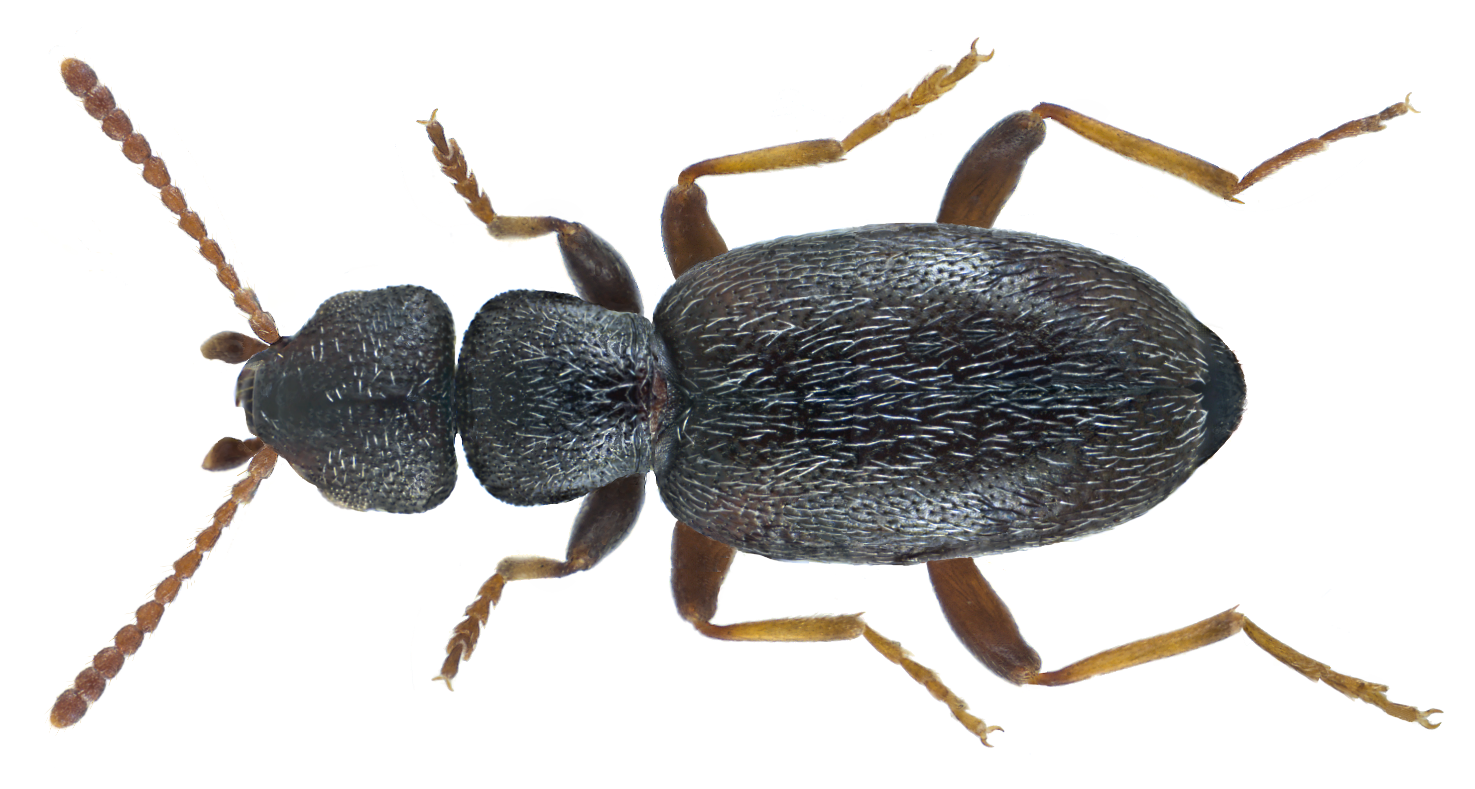 Family: Anthicidae Size: 2,6 mm Location: Tunisia, Hammamet, envoronment Club Aldiana leg. U.Schmidt, 26.V.-1.VI.1993; det. G.Uhmann, 1996 Photo: U.Schmidt, 2015